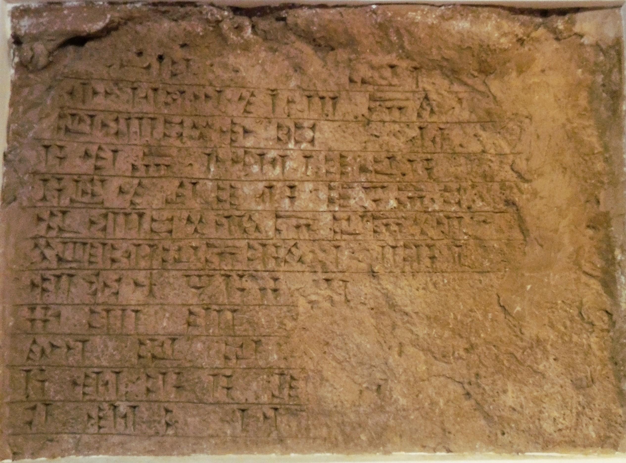 Nashtban Rock Inscription-Urartian in Azerbaijan Museum of Tabriz.